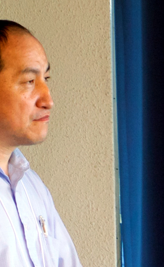 Naoyoshi Suzuki, Professor of the School of Management and Information, University of Shizuoka, and Hiroaki Yuze, Associate Professor of the School of Management and Information, University of Shizuoka, attended the Summer Symposium in Shizuoka 2012 at the Mihoen Hotel in Shizuoka City, Shizuoka Prefecture on August 22, 2012.